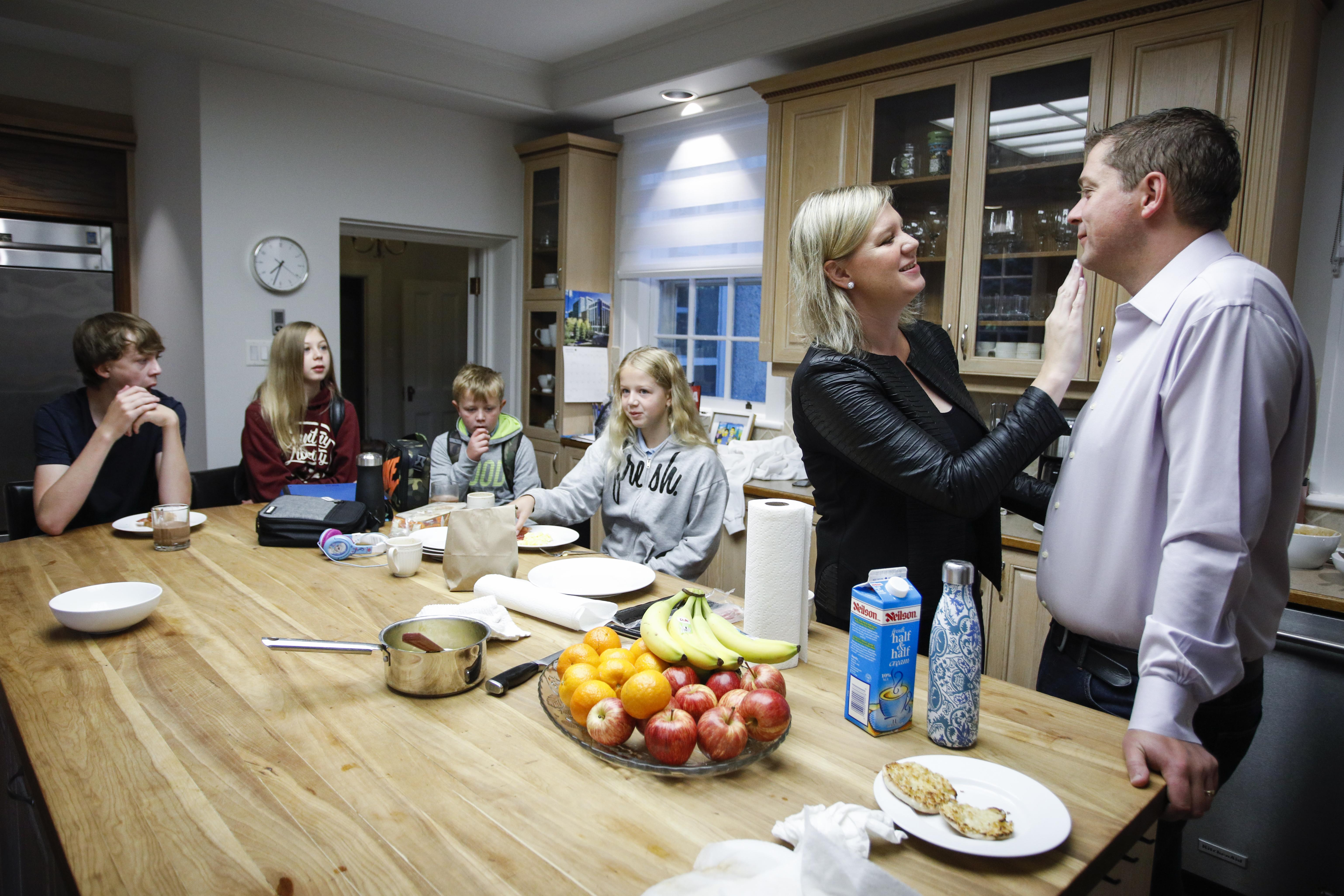 Aaaand they're off! #BackToSchool